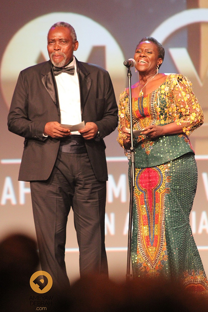 Olu Jacobs and Joke Silva at the 2014 Africa Magic Viewers Choice Awards